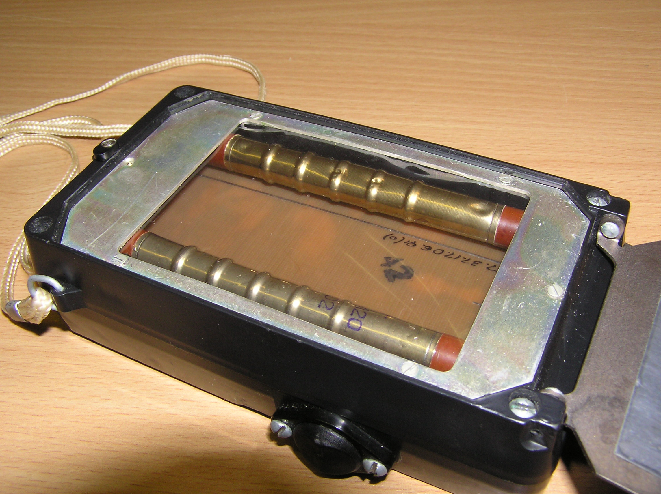 Two ionization chambers in a dosimeter. FN Motol, Prague, 2006-12-01